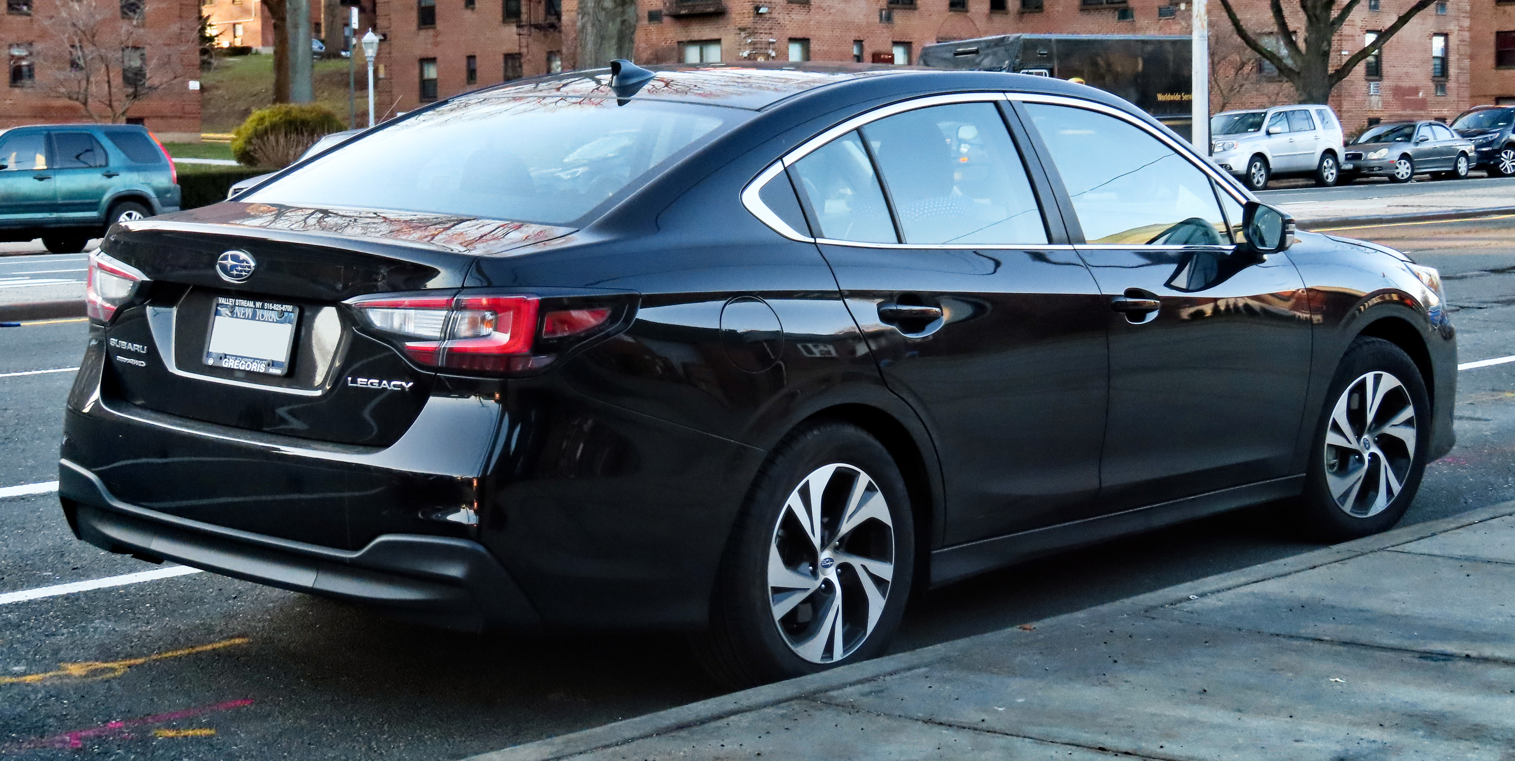 A 2020 Subaru Legacy Premium photographed in Fresh Meadows, Queens, New York, USA